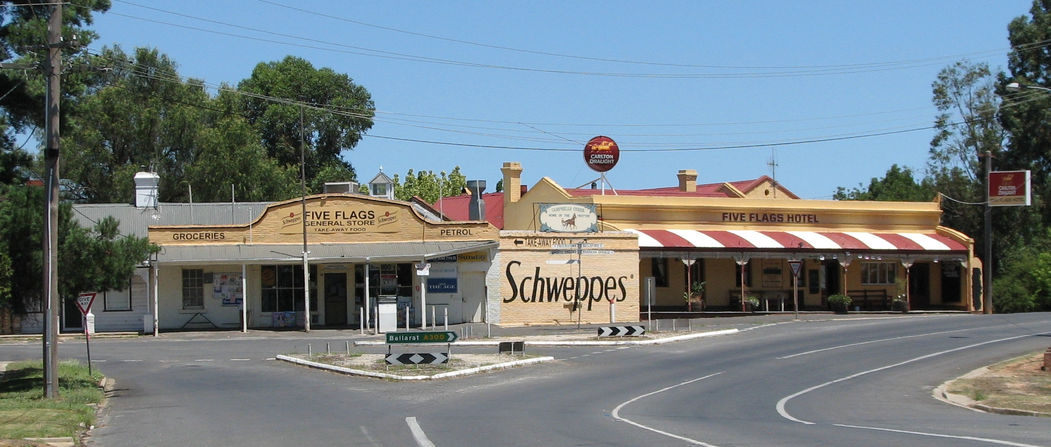 Five Flags general store and hotel, Campbells Creek, Victoria, Australia